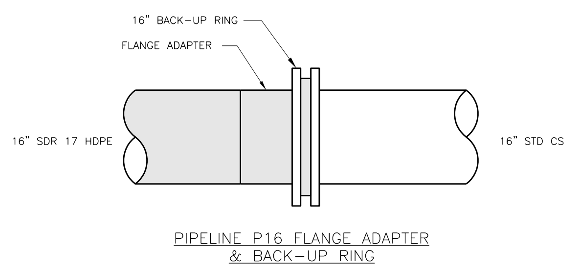 Pipeline Flange Adapter and Back-up Ring connection SDR 17 HDPE to 16 inch steel pipe